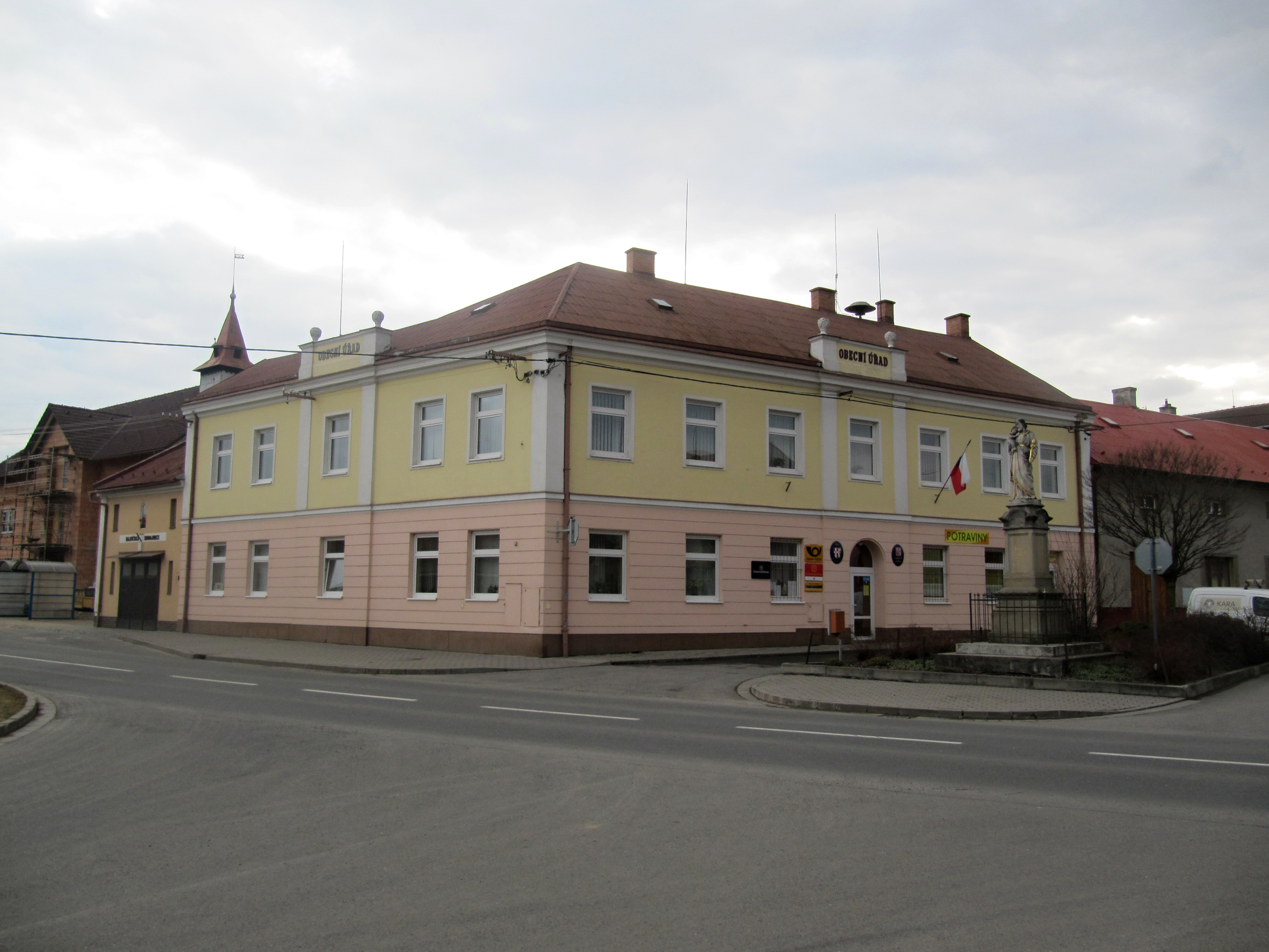 Míškovice in Kroměříž District, Czech Republic. Center of the village. Municipal office, firehouse and St.-Joseph-statue.